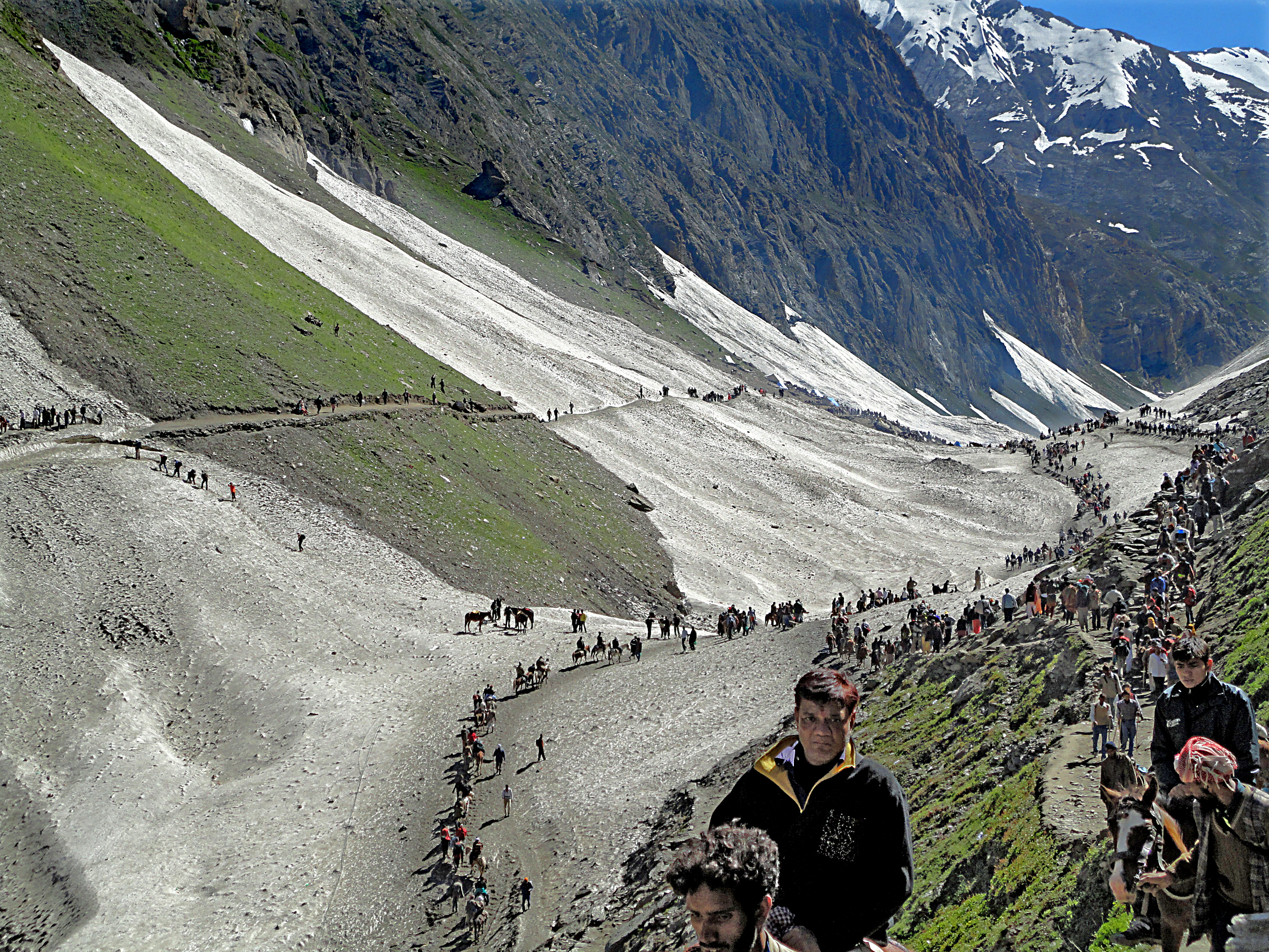 Pilgrims endure a tough terrain en route the holy Amarnath Cave.